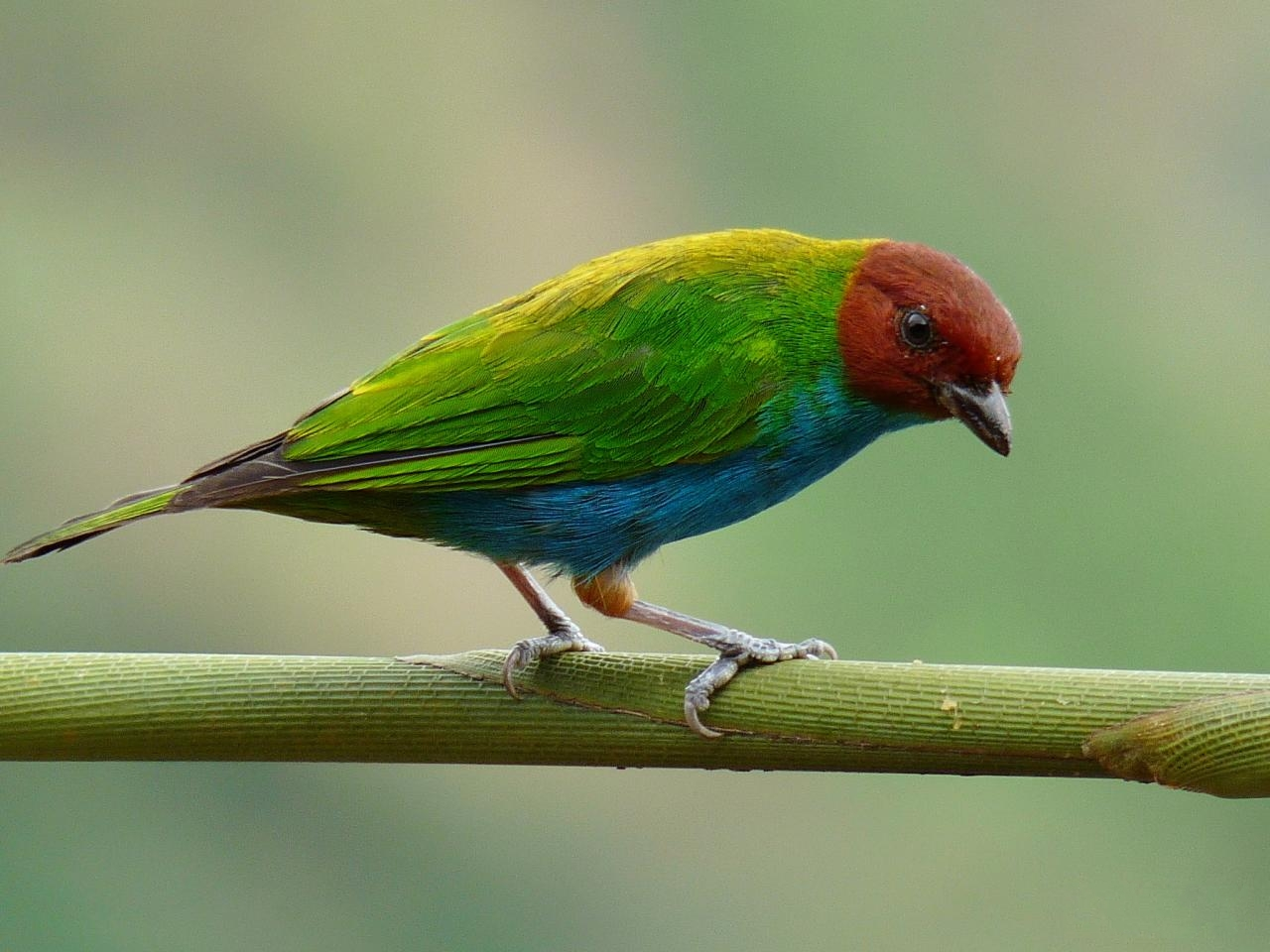 A Bay-headed Tanager in Manizales, Caldas, Colombia.